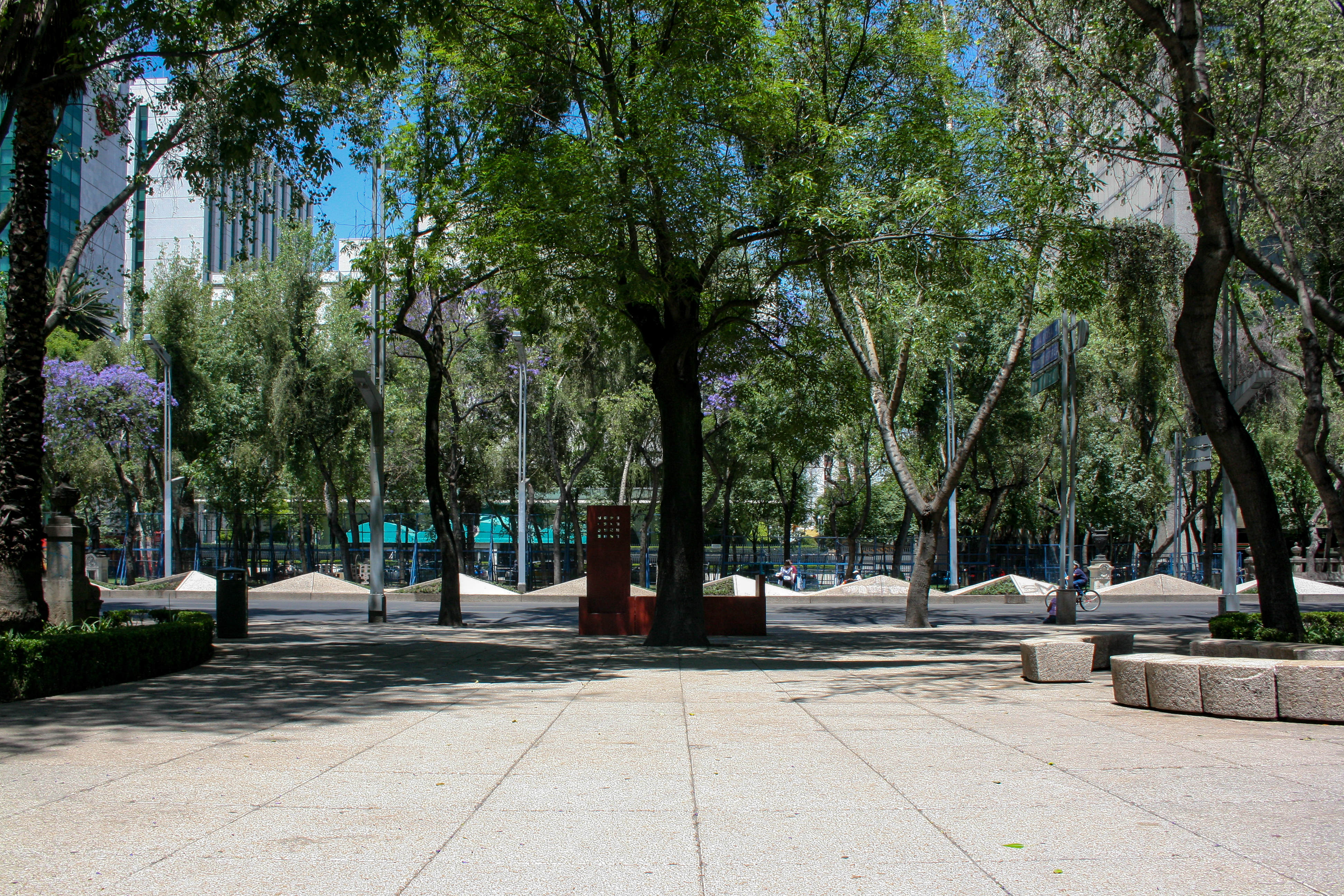 Paseo de la Reforma avenue. Mexico City.